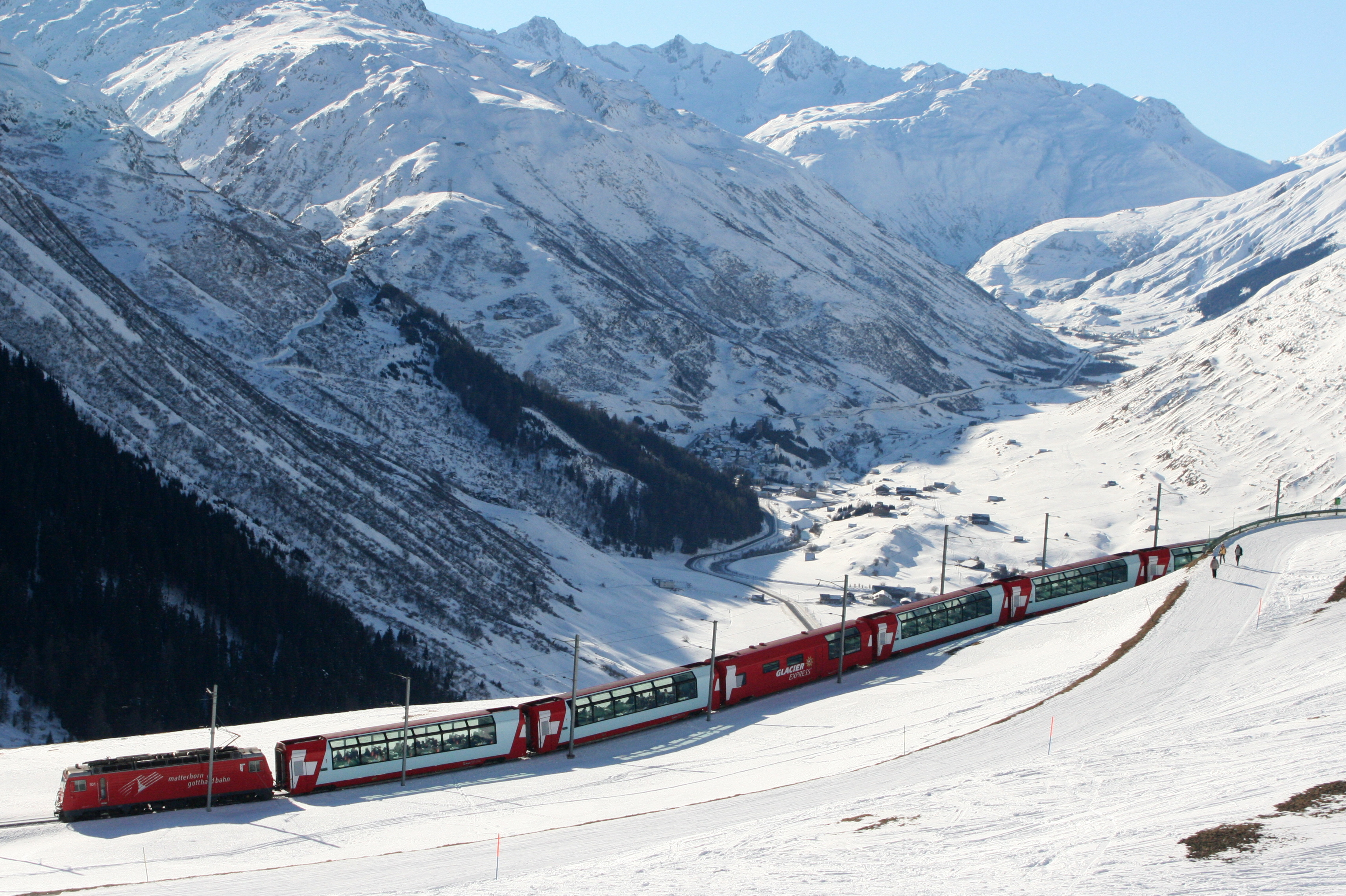 Glacier express above Andermatt